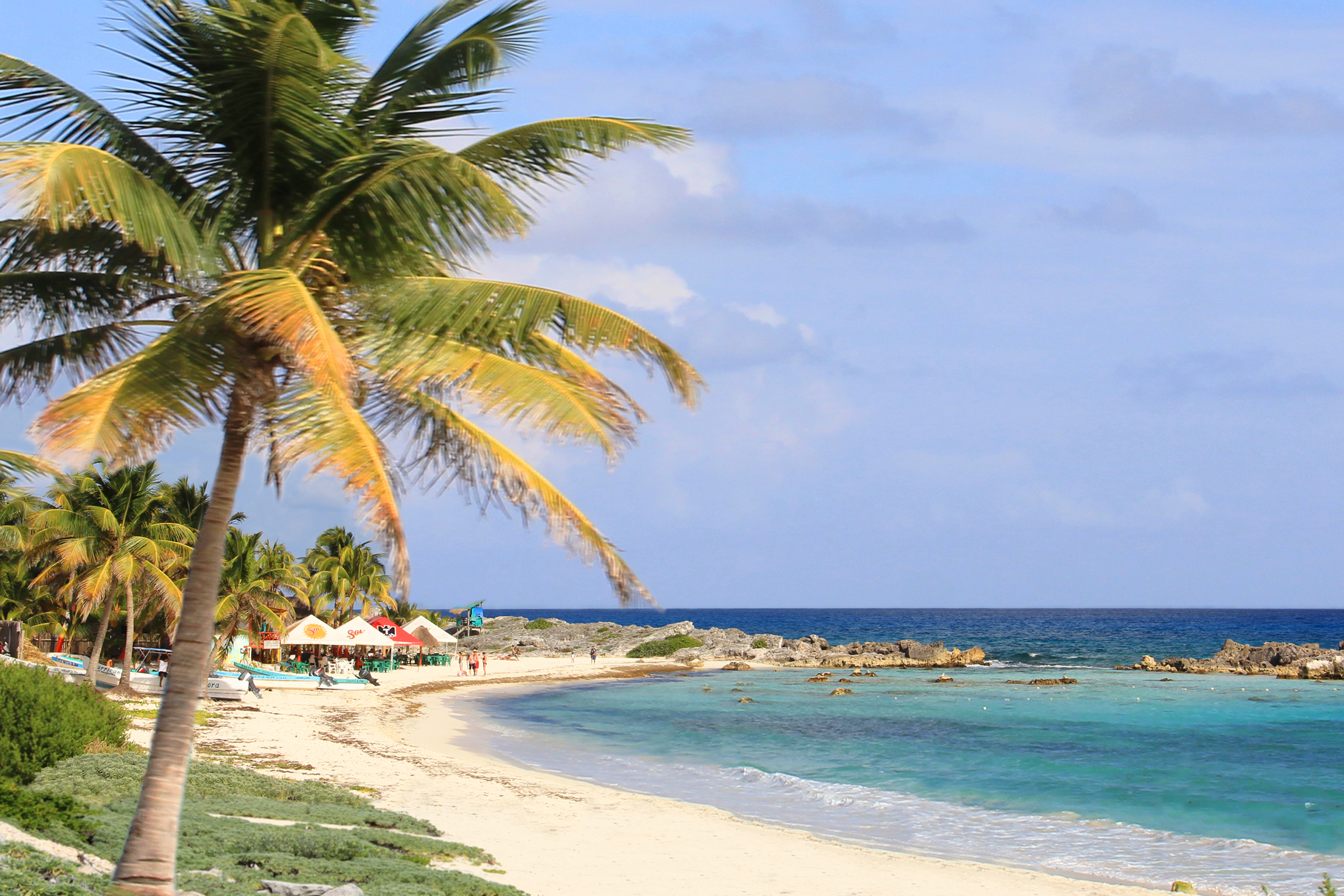 Beach in Cozumel, Mexico